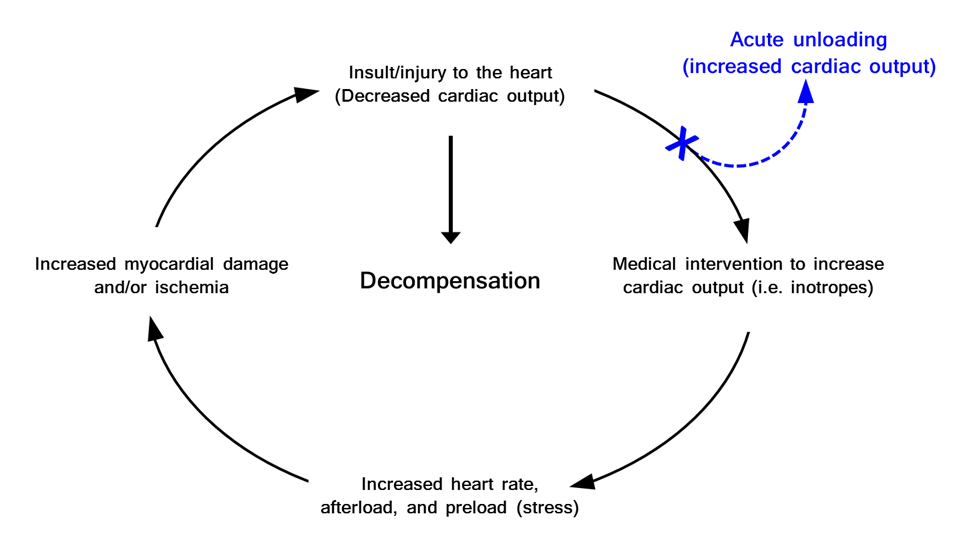 Acute cardiac unloading interrupts the spiral into decompensation that accompanies treatment of many cardiomyopathies.